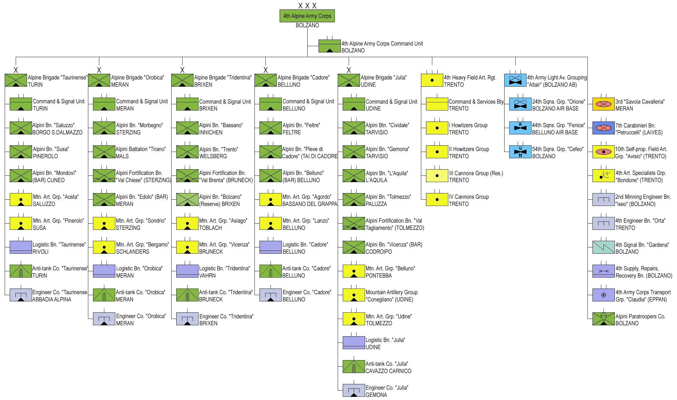 Structure of the Italian Army's 4th Alpine Army Corps in 1977